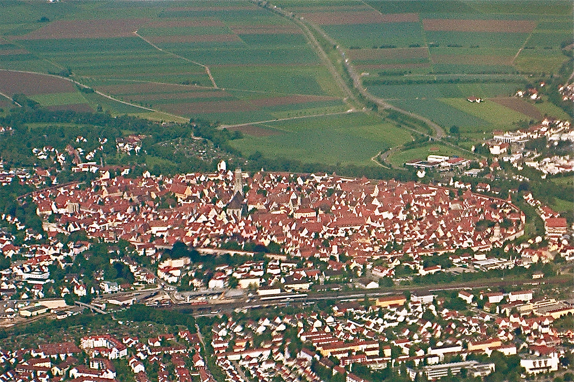 Air photograph of Noerdlingen